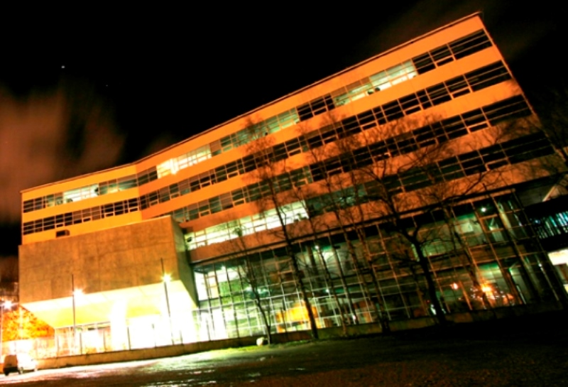 Mare building